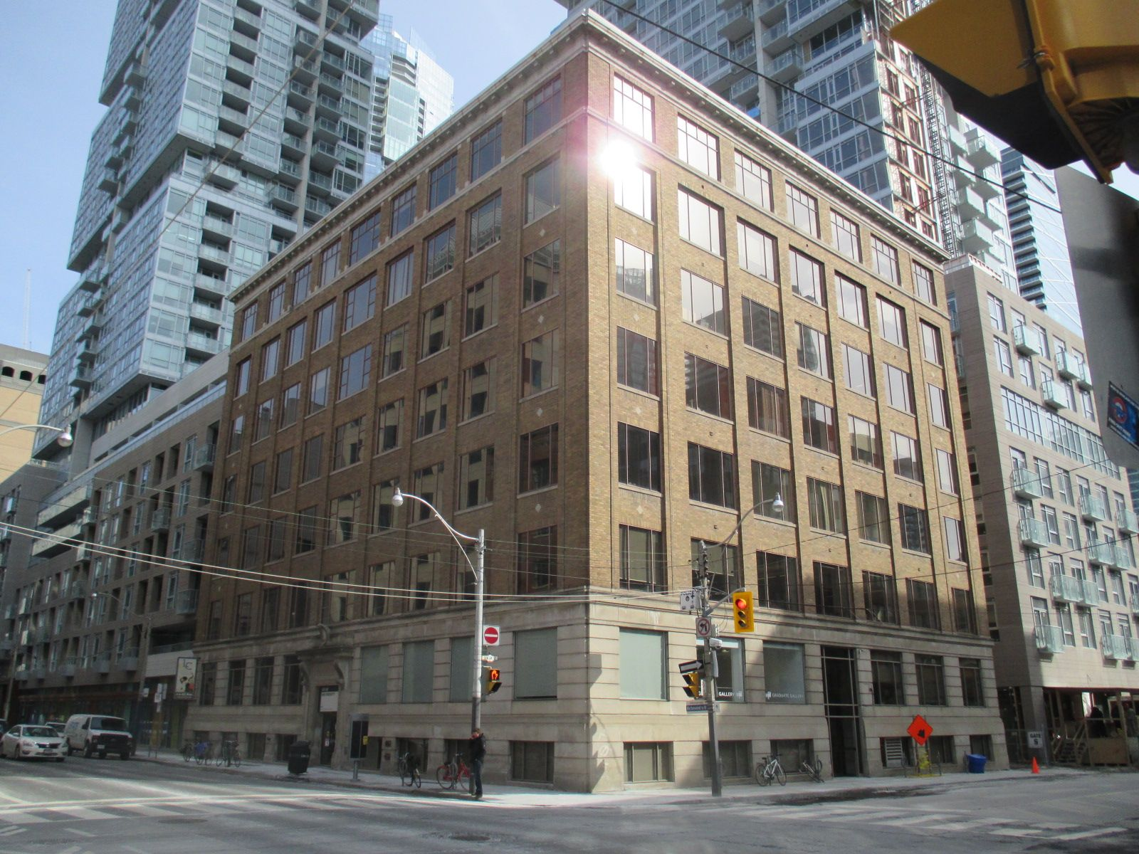 New Textile Building, 205 Richmond St W, Toronto. Built: 1923. Architect: Benjamin Brown